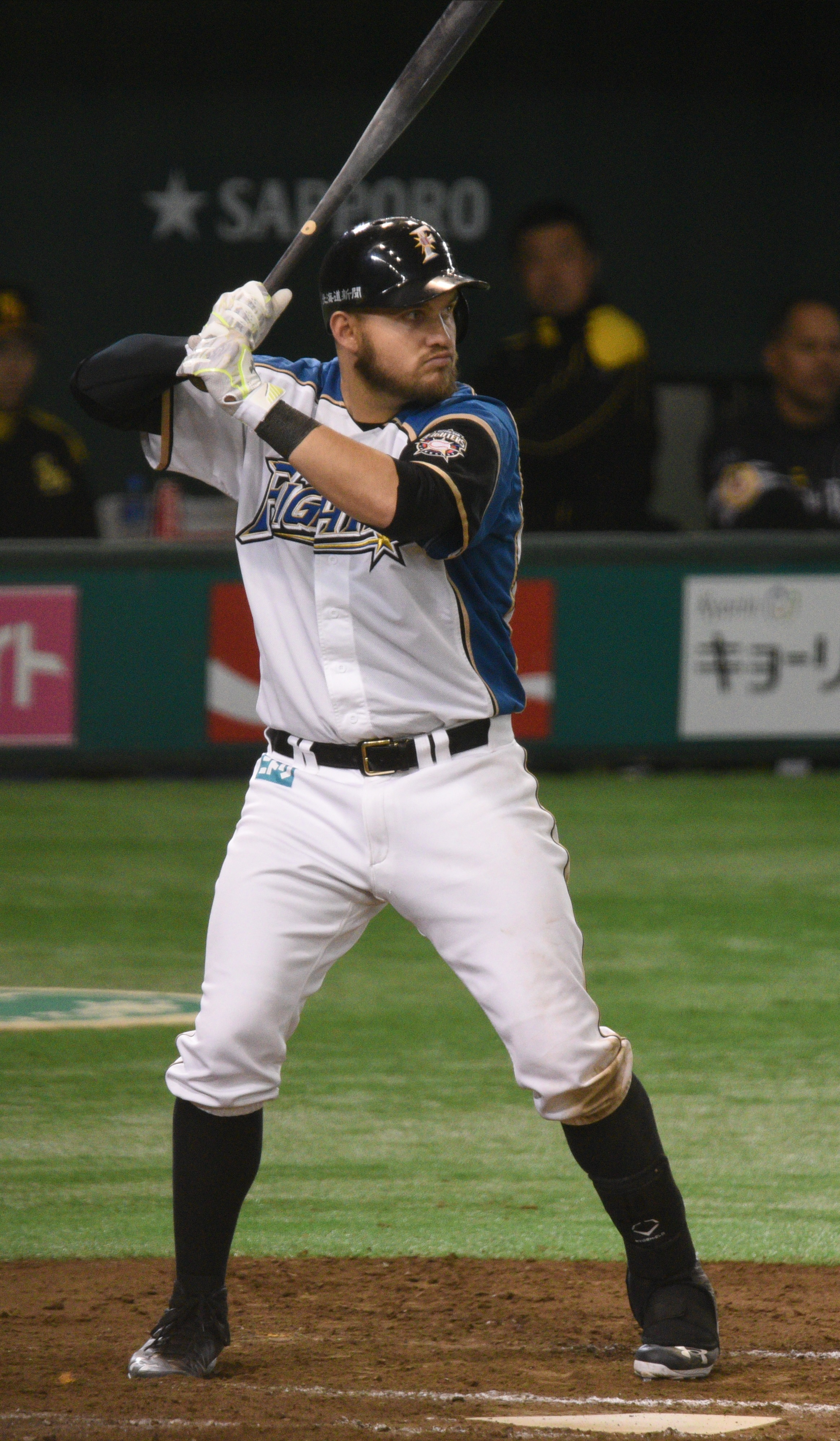 Brandon Laird, infielder of the Hokkaido Nippon-Ham Fighters, at Tokyo Dome